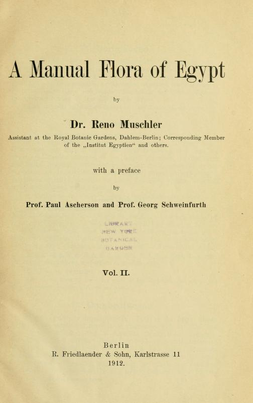 Front cover of A Manual Flora of Egypt